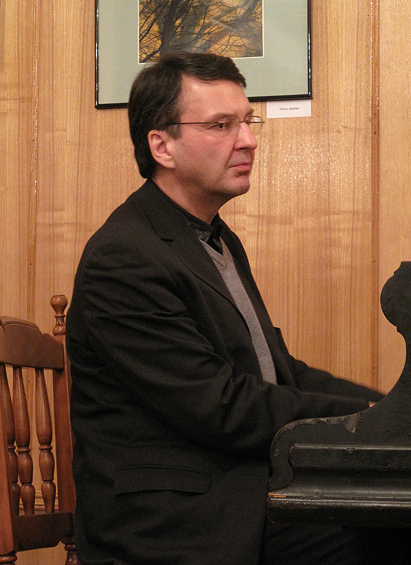 Russian pianist Ivan Sokolov playing in Moscow Tchekhov Library